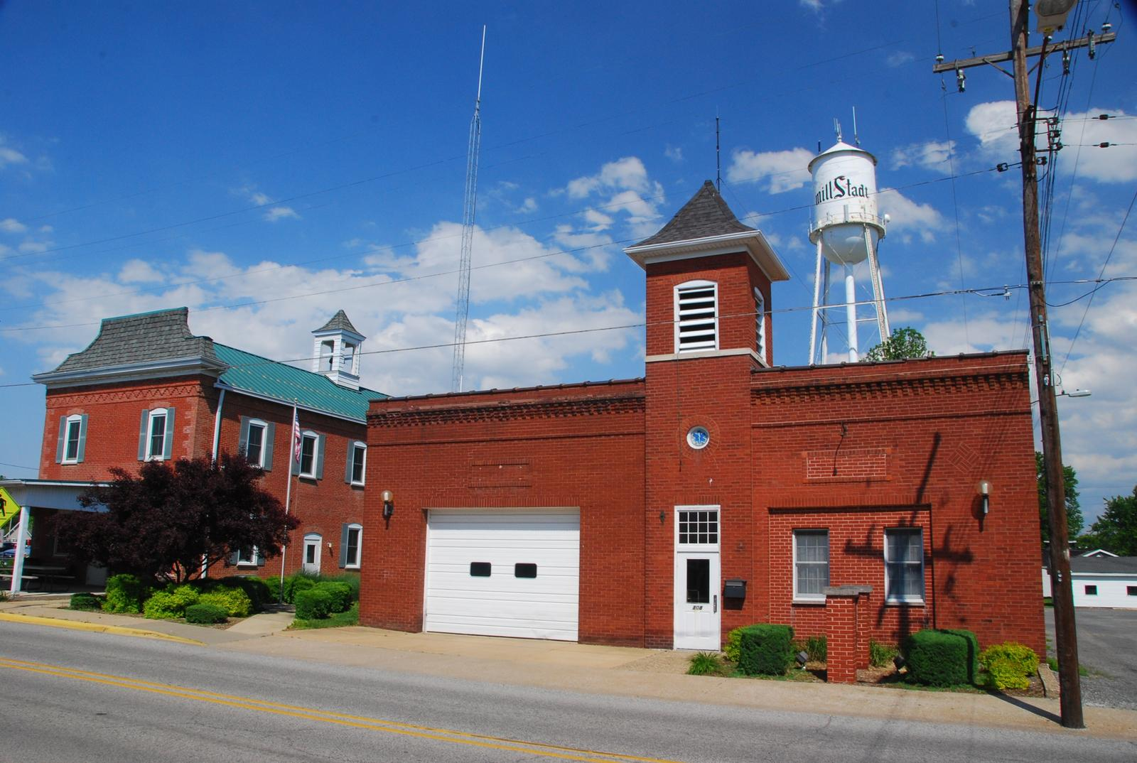 Community center and ambulance station (formerly fire station), Millstadt, Illinois; iconic water tower in the background.